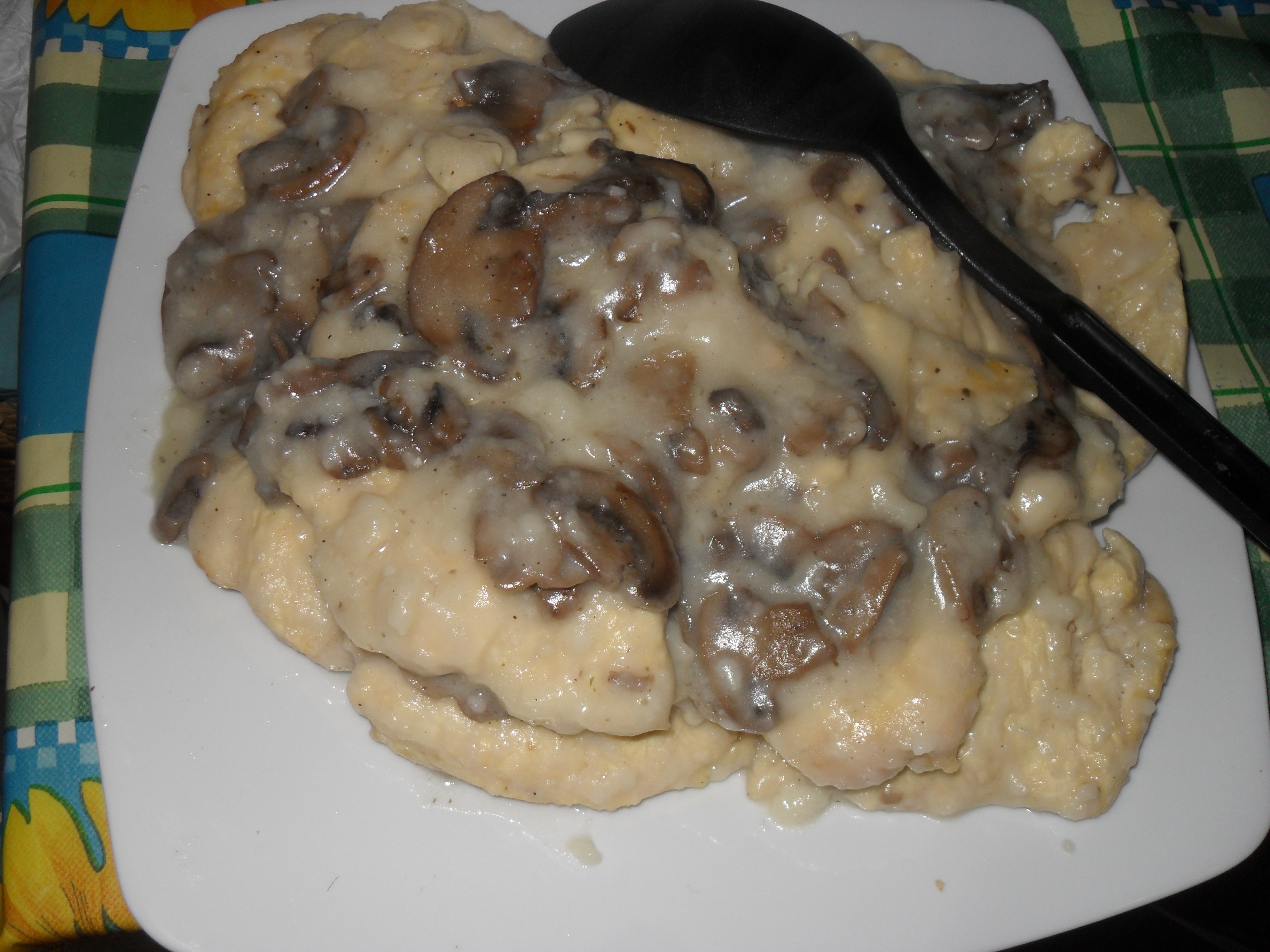 Italian chicken scaloppine with mushrooms and truffles.